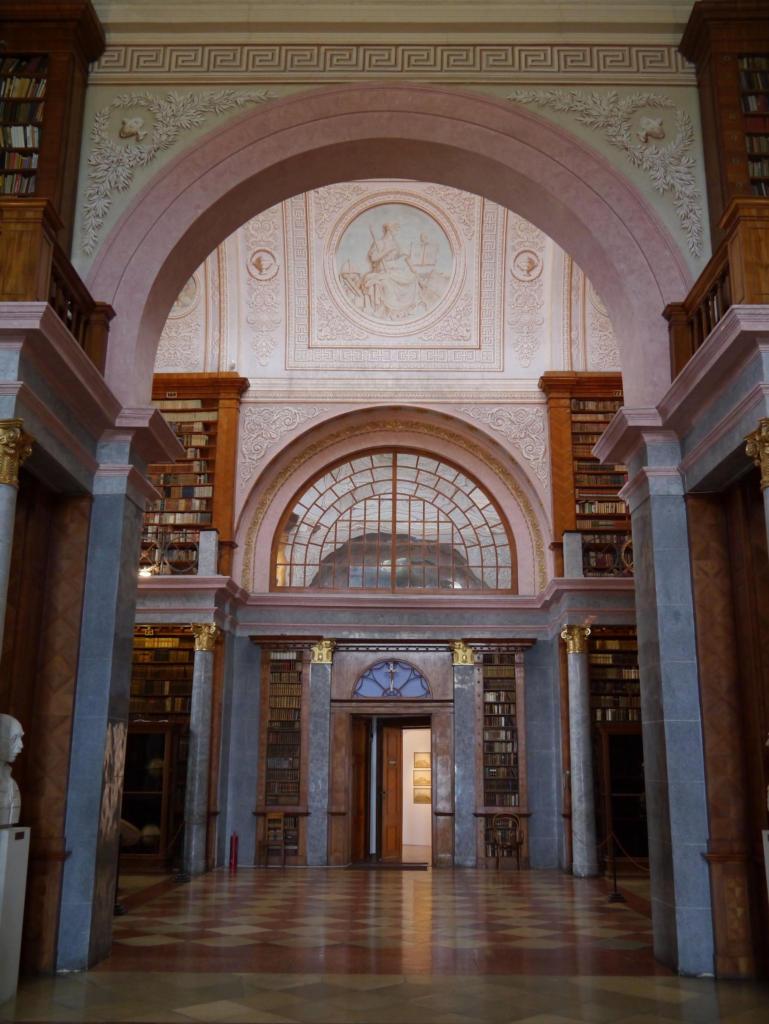 Library of Pannonhalma Archabbey, Pannonhalma, Western Hungary